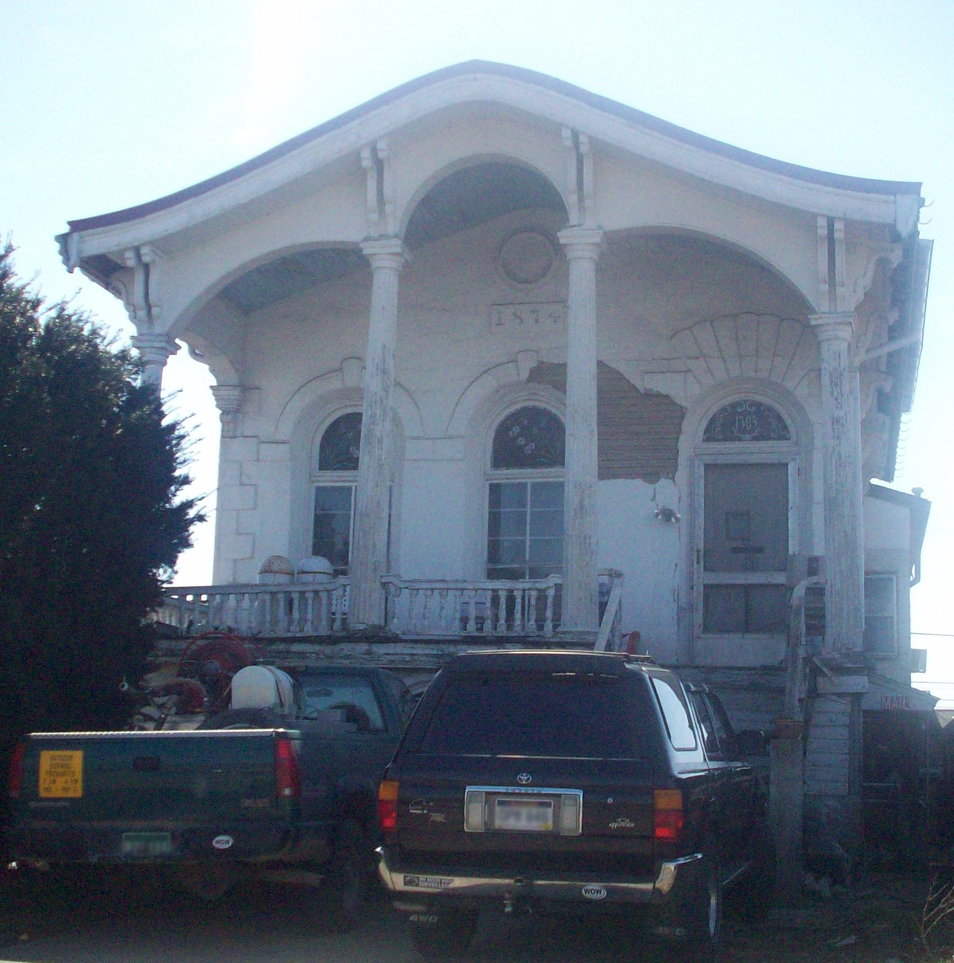 Photo of the Coin Harvey House located in Huntington, West Virginia. The photo was taken from the sidewalk in front of the house along 3rd Avenue.